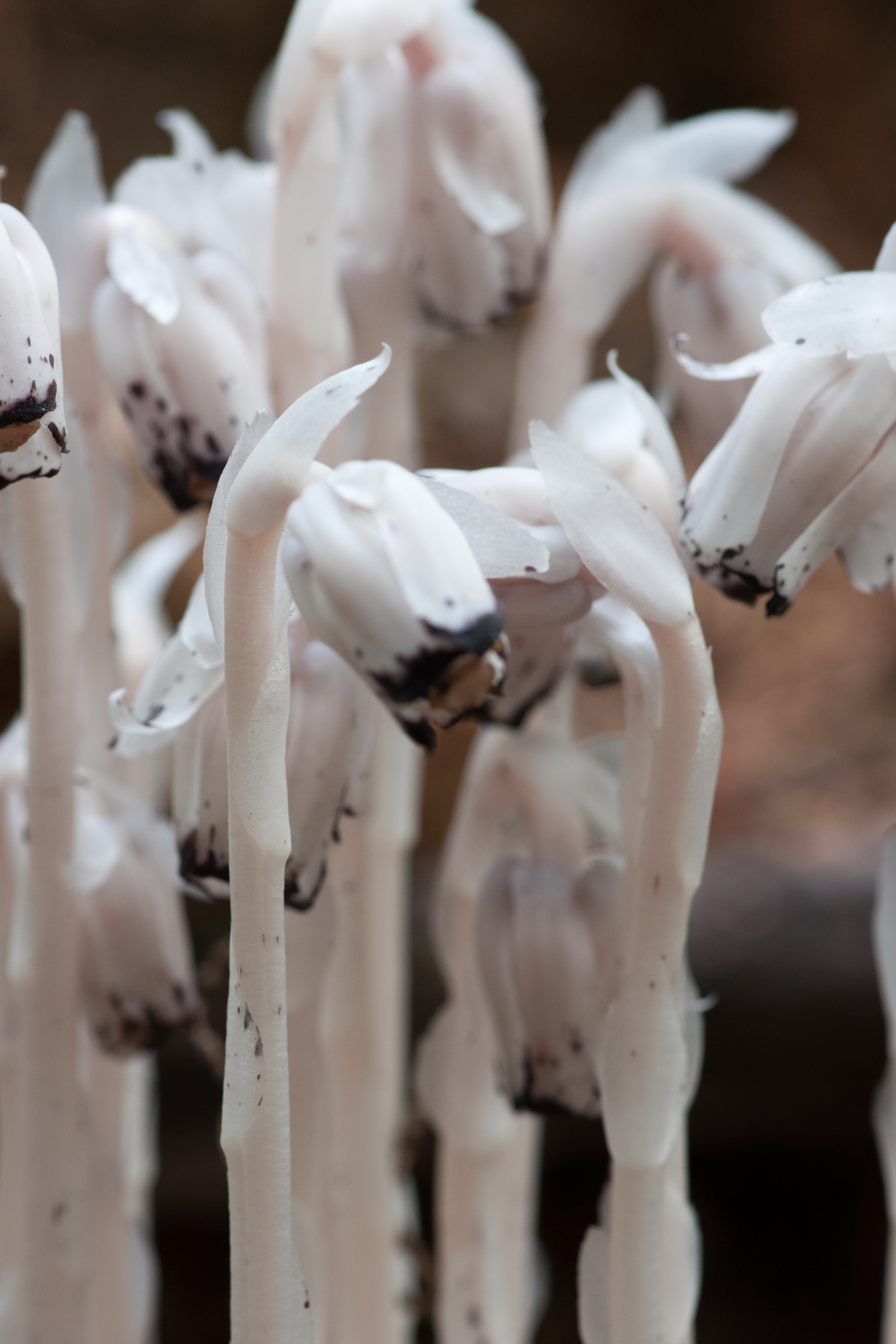 Montropa Uniflora stem detail. This picture can be viewed at high resolution for excellent stem detail.